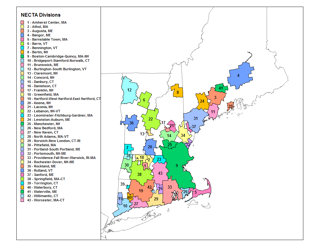 Map of the New England City and Town Areas (NECTAs) of the United States (based on 2005 US Census data). Created by Rarelibra 20:33, 25 October 2006 (UTC) for public domain use, using MapInfo Professional v8.5 and various mapping resources.